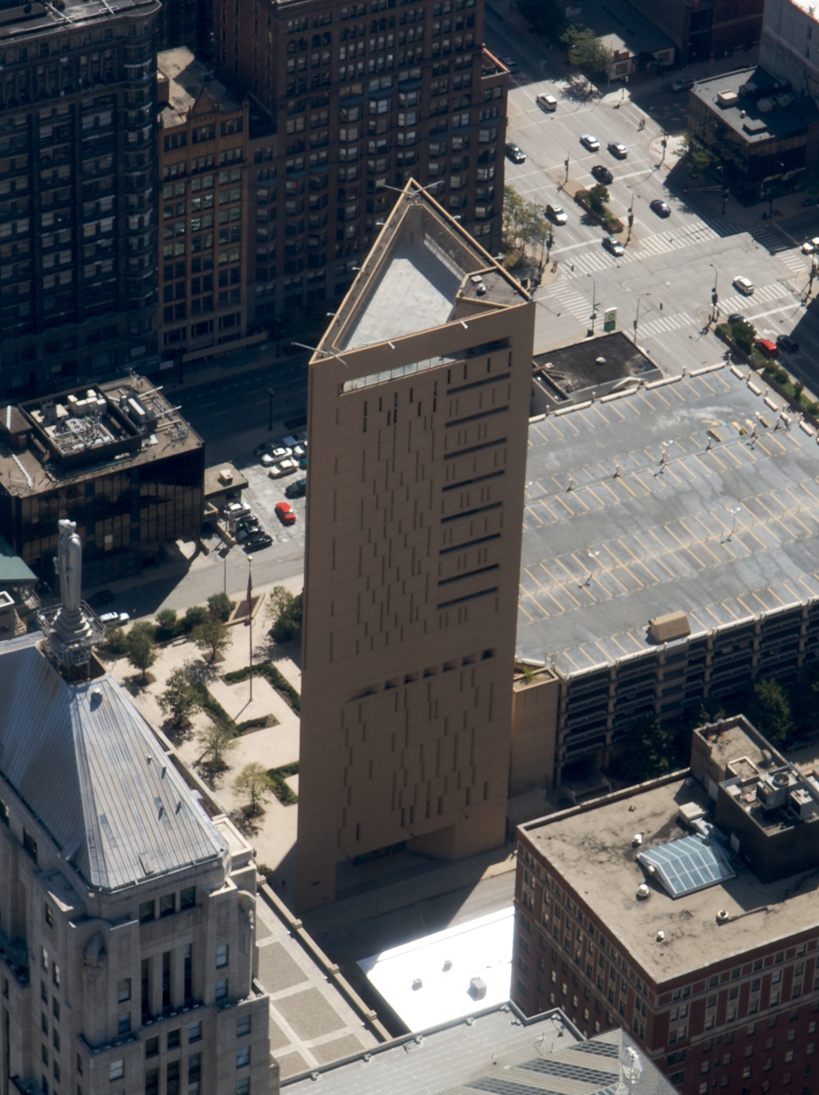 Metropolitan Correctional Center, Chicago viewed from the Sears Tower (now the Willis Tower)